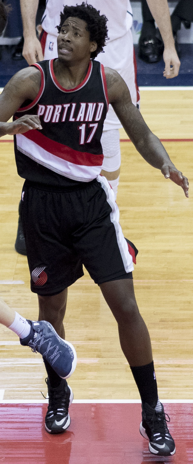 Trail Blazers at Wizards 1/16/17